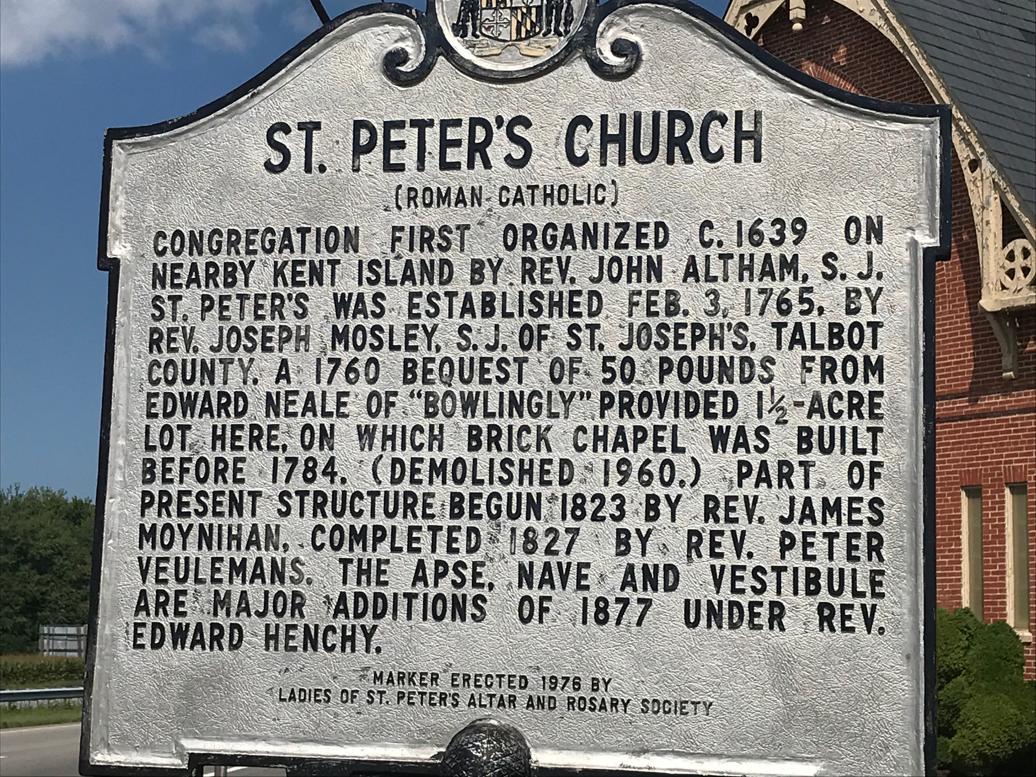 Historical marker in front of St. Peter's Church near Queenstown, Maryland. One of the first Catholic communities in the English-speaking colonies in North America.